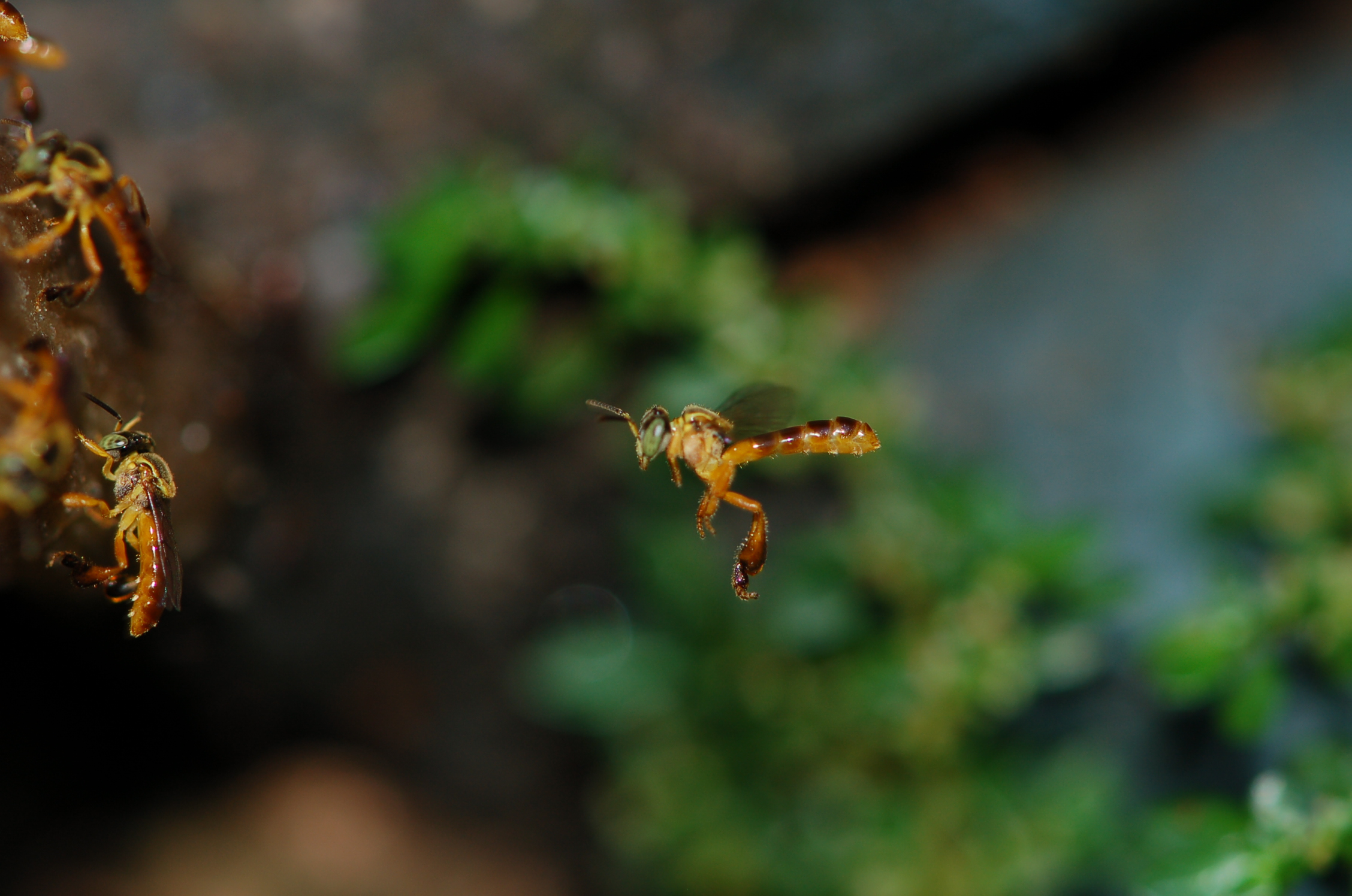 A Tetragonisca angustula hovering guard bee next to a nest-entrance.